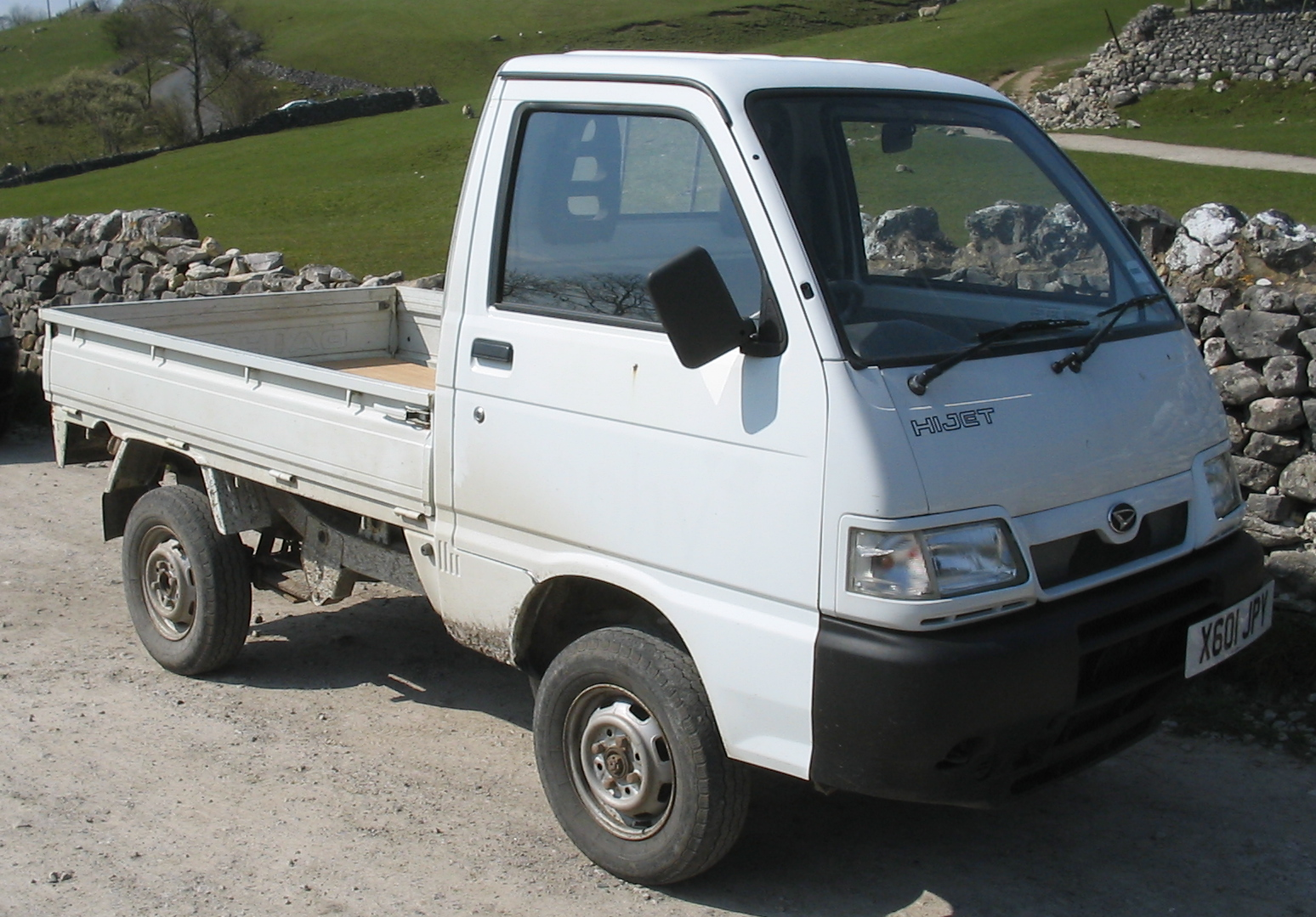 A 2001 Daihatsu Hijet pickup truck, 1295cc four-cylinder engine. The photo was taken at a car park near Gordale Scar, about a kilometer from Malham, England. There was an ice cream truck at the car park. David Benbennick took the photo on Sunday, April 22, 2005 at 12:30 PM (local time).